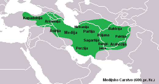 Map of Medes territory